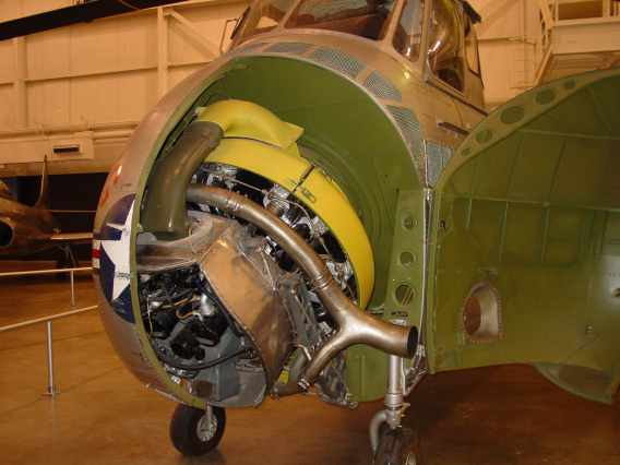 H-19 Chickasaw with a Wright R-1300 engine at the National Museum of the United States Air Force